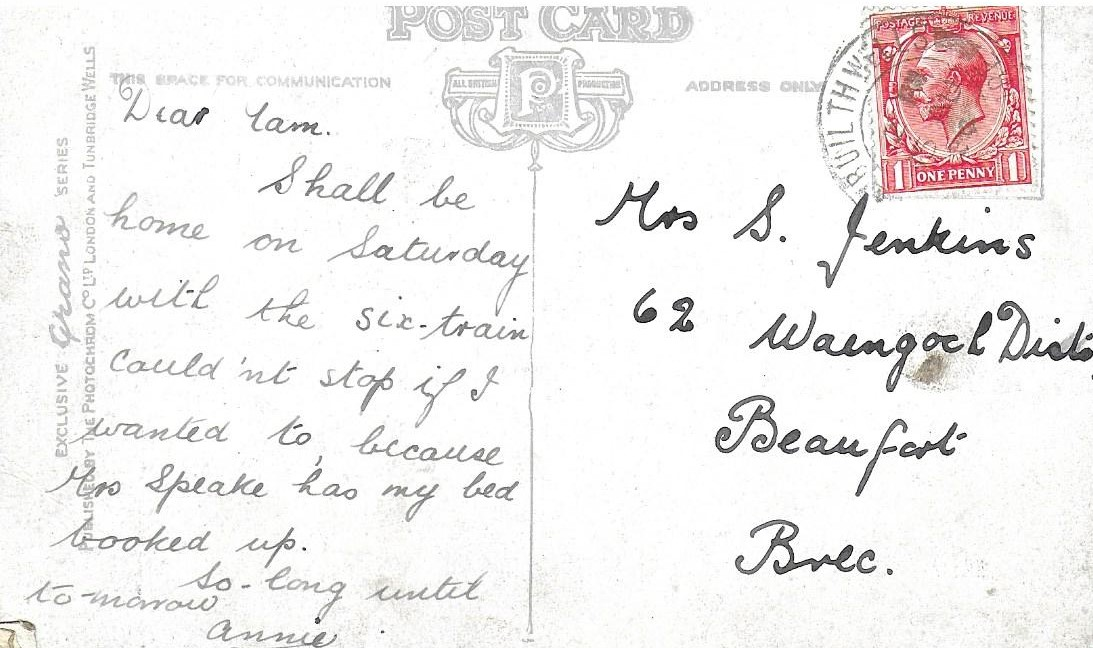 Postcard to address in Beaufort, labelled as Breconshire, 1920s